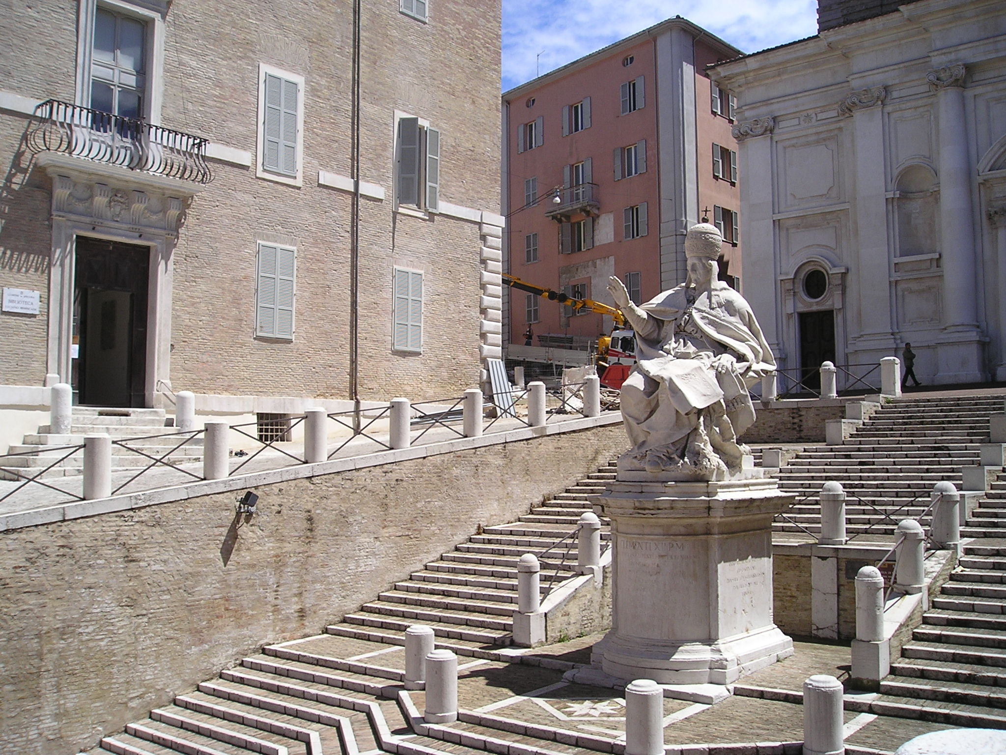 The statue of Clemente XII Pope, by Agostino Cornacchini (1736), in Plebiscito square in Ancona, Italy.